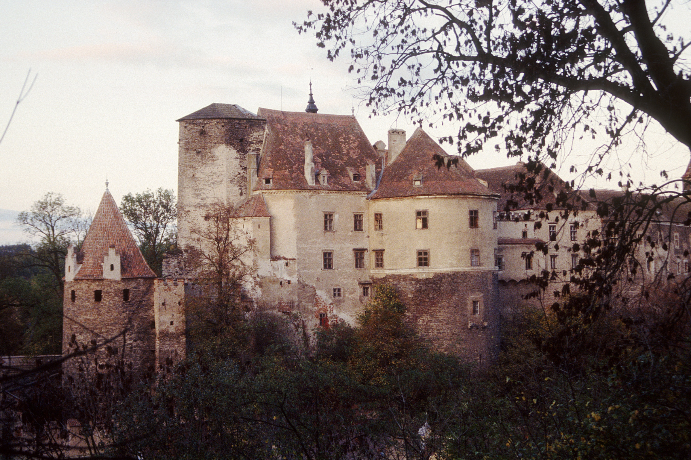 Raabs an der Thaya Castle, Lower Austria